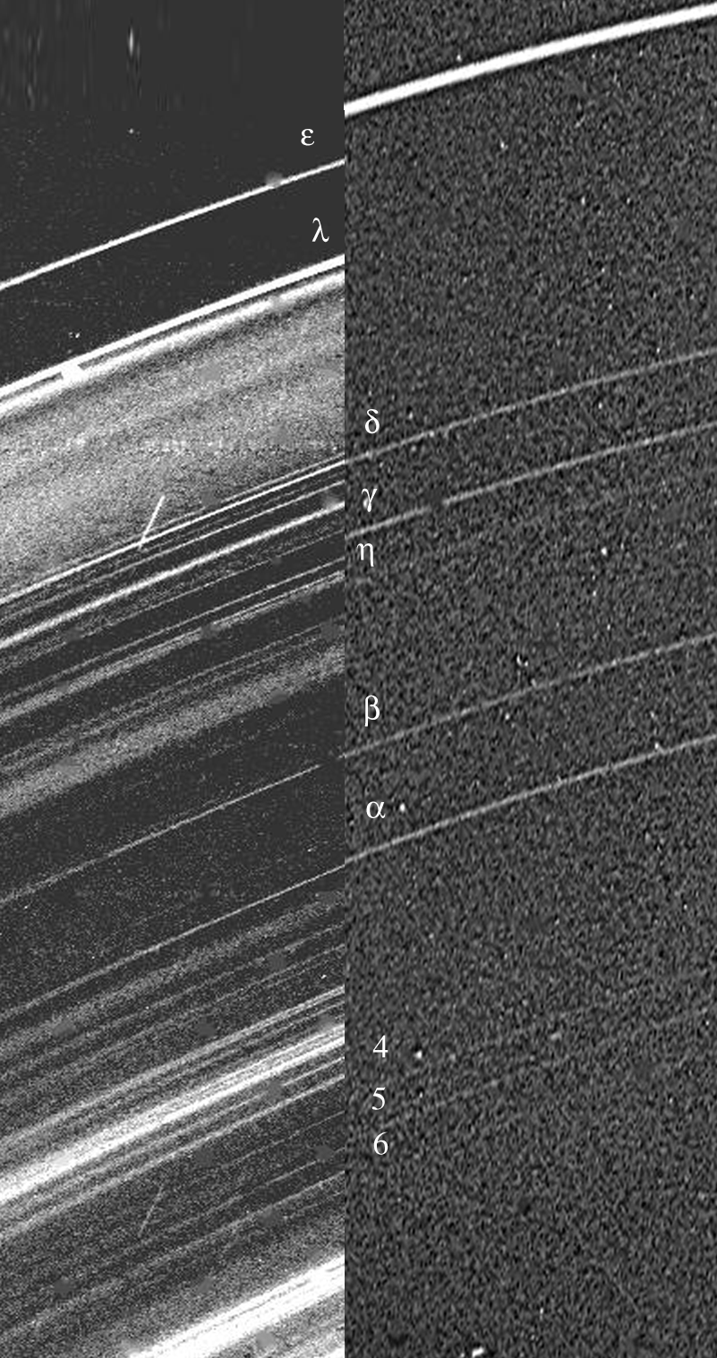 The image is a merge of two images of Uranian rings obtained by Voyager 2 spacecraft in 1986. The forward-scattering image (left) shows dust in the ring system; while back-scattering image (right) shows distribution of larger bodies. α and β rings are matched. The difference in the position of the ε ring is caused by its eccentricity.